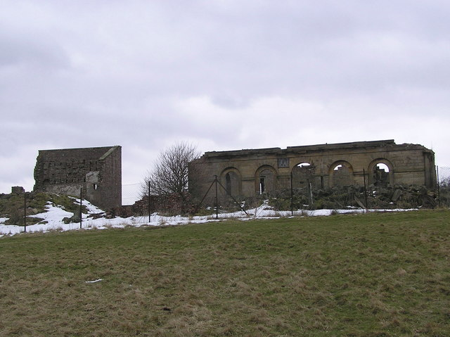 Richmond Racecourse Grandstand. Richmond Racecourse Grandstand Built in 1777, by John Carr an eminent Yorkshire Architect.